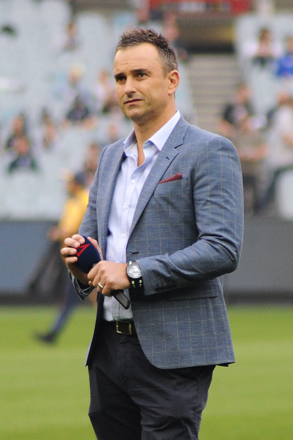 Ben Dixon during the AFL round five match between Carlton and West Coast on 21 April 2018 at the Melbourne Cricket Ground in Melbourne, Victoria.